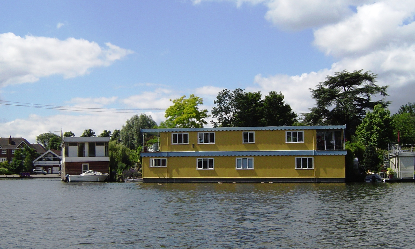 Taggs Islan River Thames